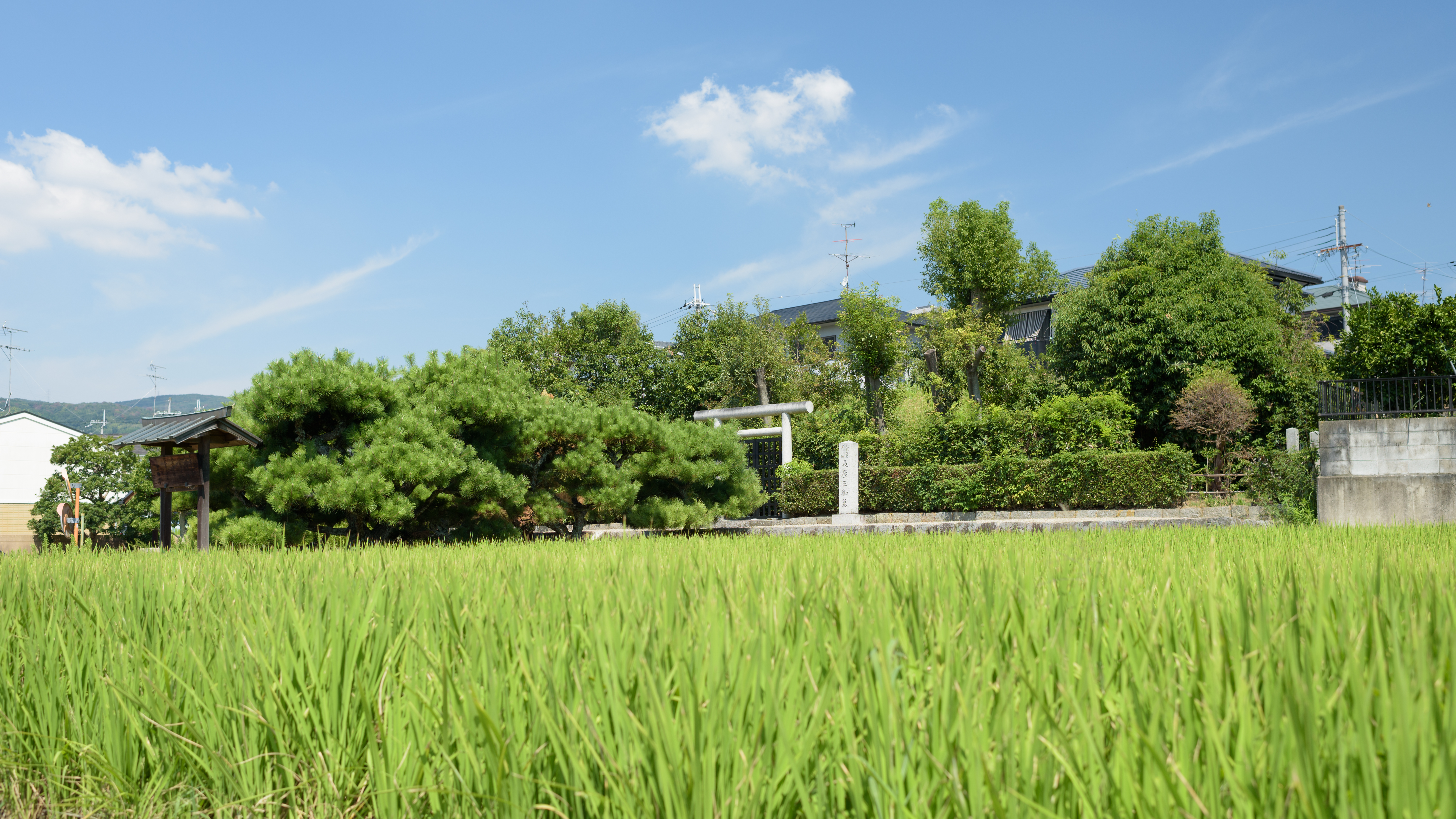 Tomb of Prince Nagaya, in Heguri, Nara Prefecture, Japan